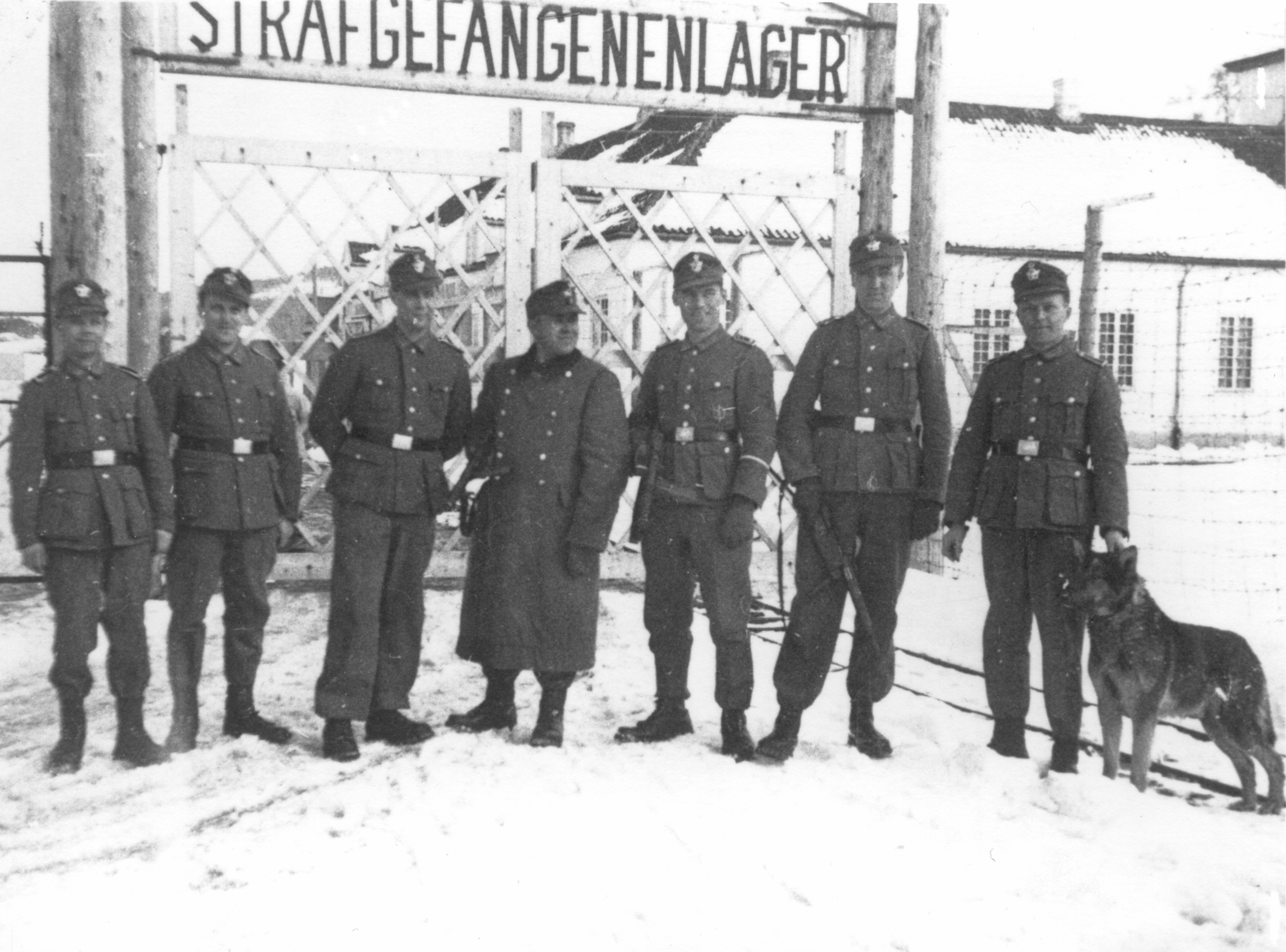 Tysk personell foran hovedporten på Falstad. German personnel in front of the main gate at Falstad. Dato/Date: 1943–45 Fotograf/Photographer: Ukjent/Unknown Sted/Place: Ekne, Nord-Trøndelag, Norge/Norway Arkivreferanse/Archive reference: FSM foto 0700288